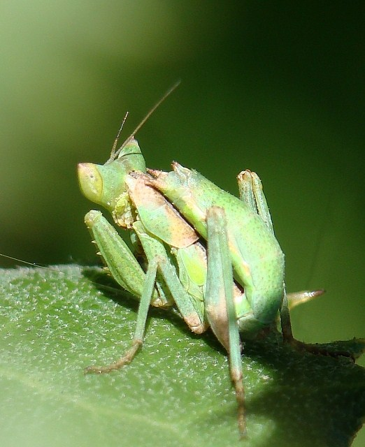 (CC-BY/-SA license) Ameles spallanzania free image from [1 Tree of Life